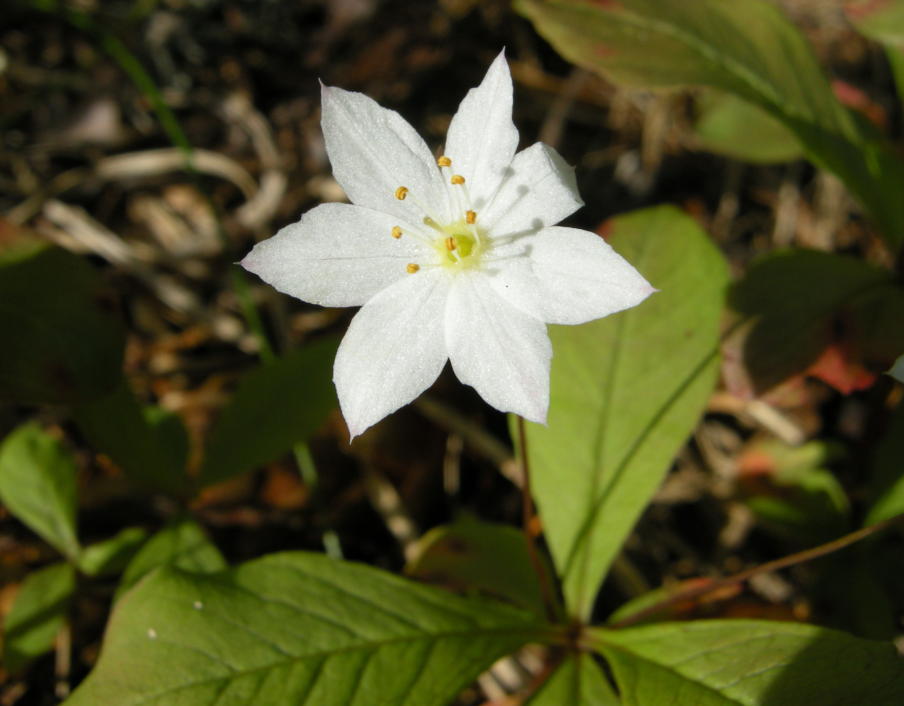 Chickweed wintergreen or Arctic starflower - Trientalis europaea